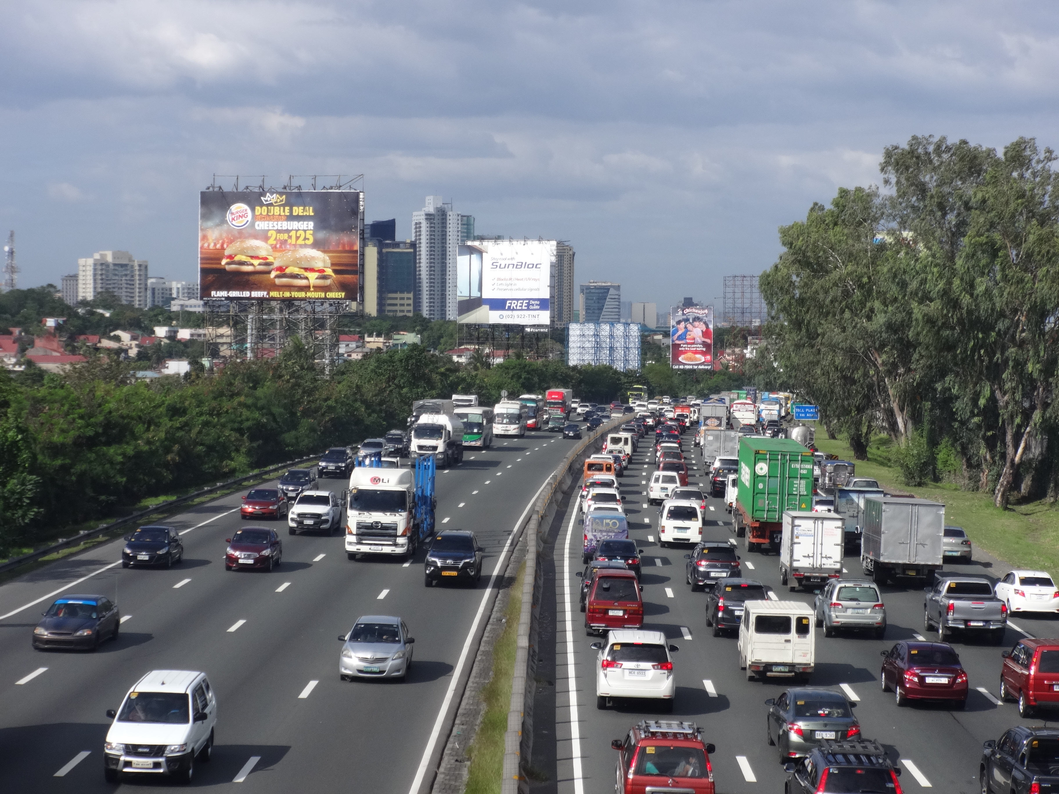 South Luzon Expressway in Putatan, Muntinlupa City